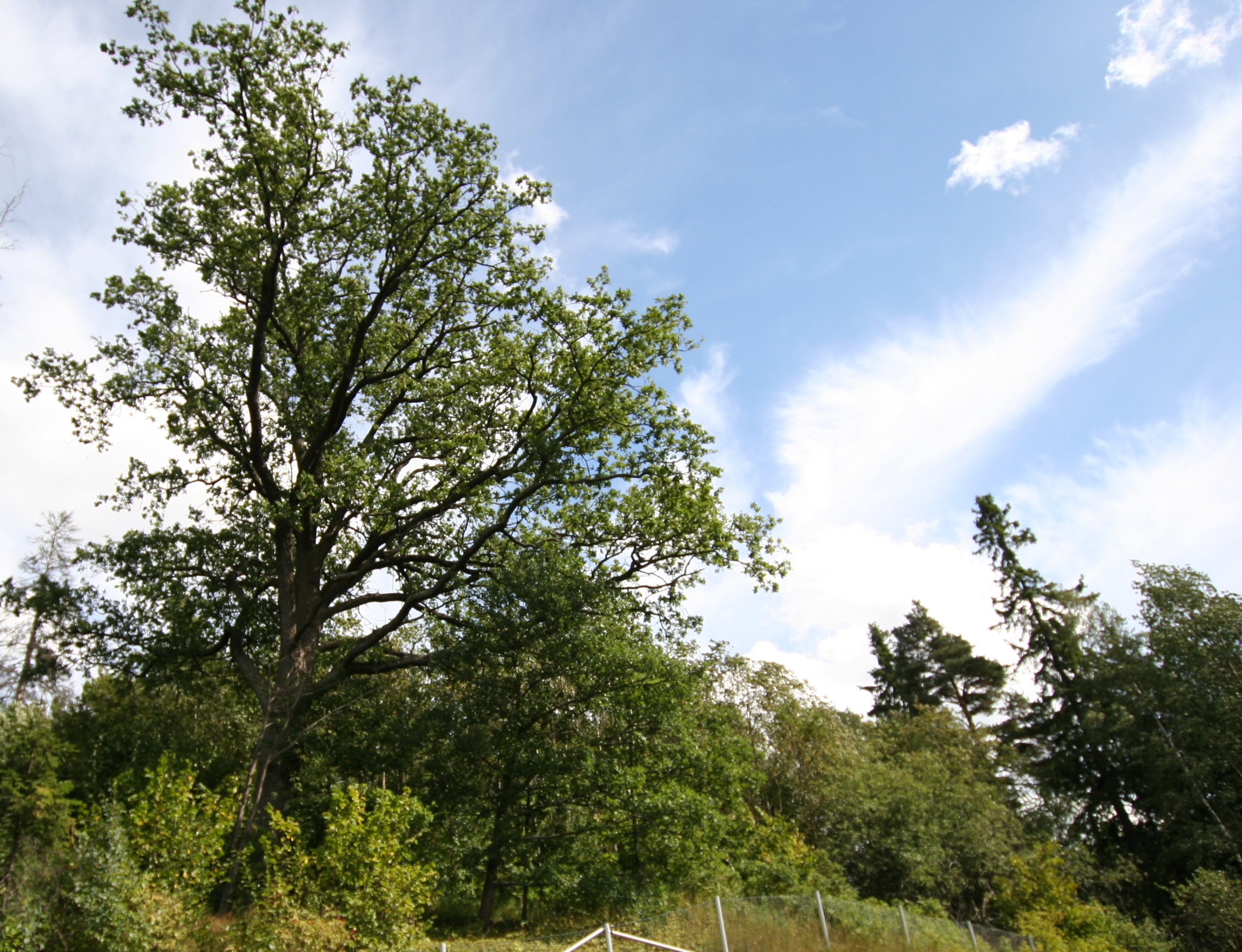 Tammisto forest Vantaa Finland